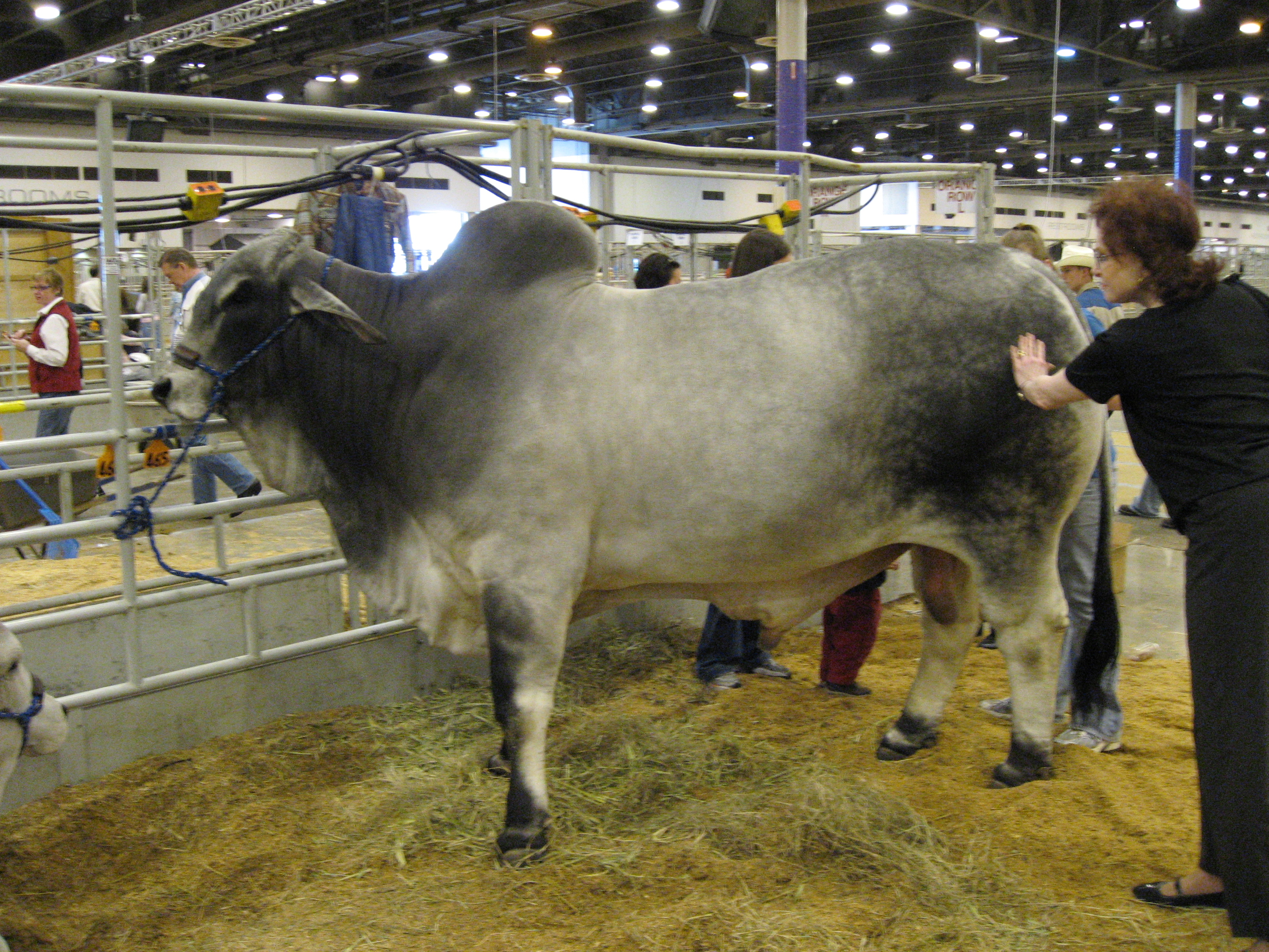 Picture of Brahman cattle from Houston Livestock Show and Rodeo, taken March 3, 2007